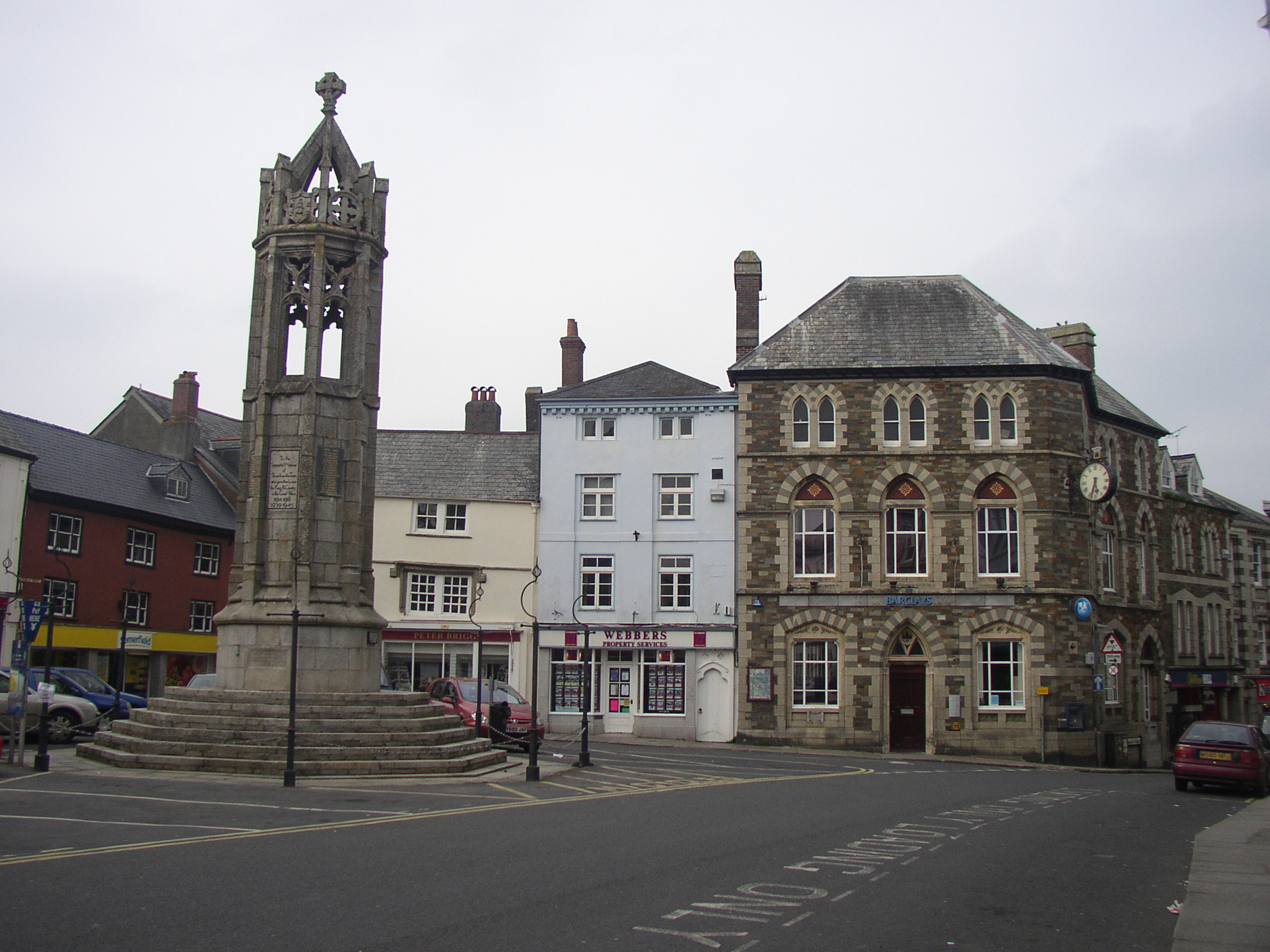 The center of the city of Launceston, the Cornwall capital in south-western England.